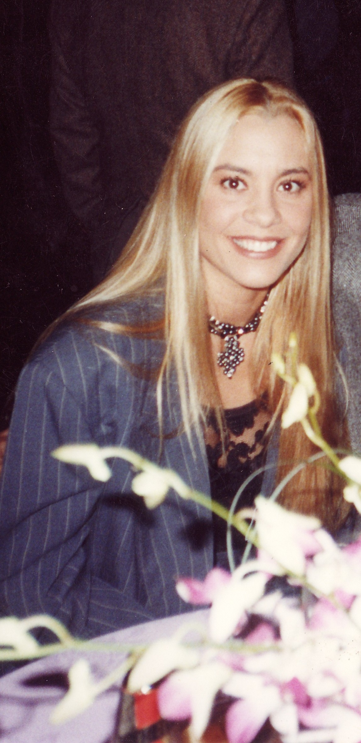 This photo is entirely my work. I own it, feel free to use it.